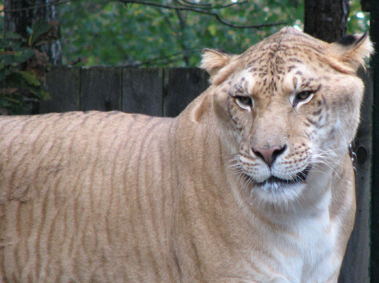 A liger